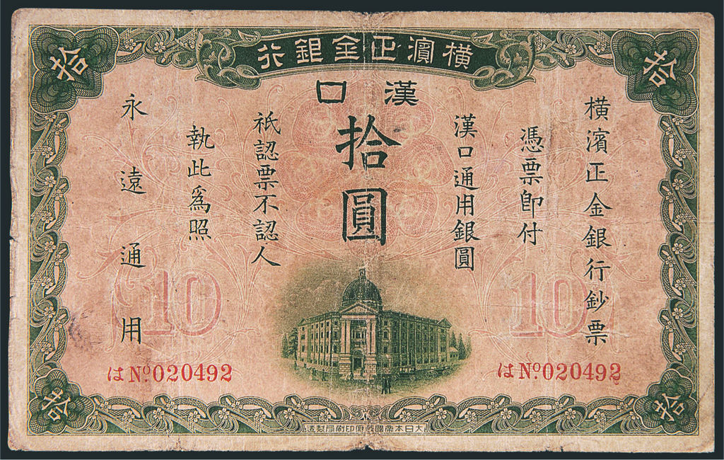 10 Yüan Note issued by the Hankow Branch